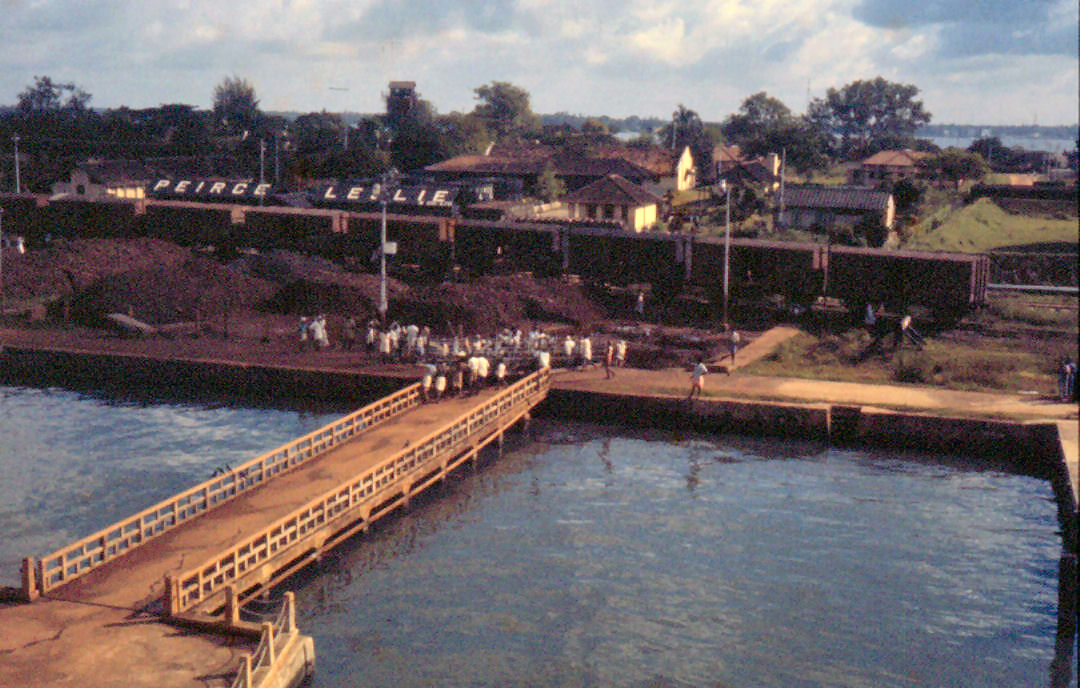 Photo taken from the ship when we arrived in Cochin.